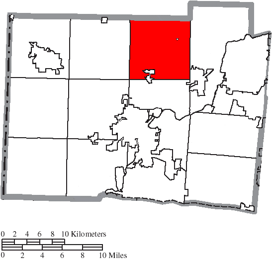 Map of the municipal and township boundaries of Butler County, Ohio, United States, as of the 2000 census, with the location of Wayne Township highlighted. Township borders are shown only in unincorporated areas in order to differentiate incorporated and unincorporated areas more clearly.